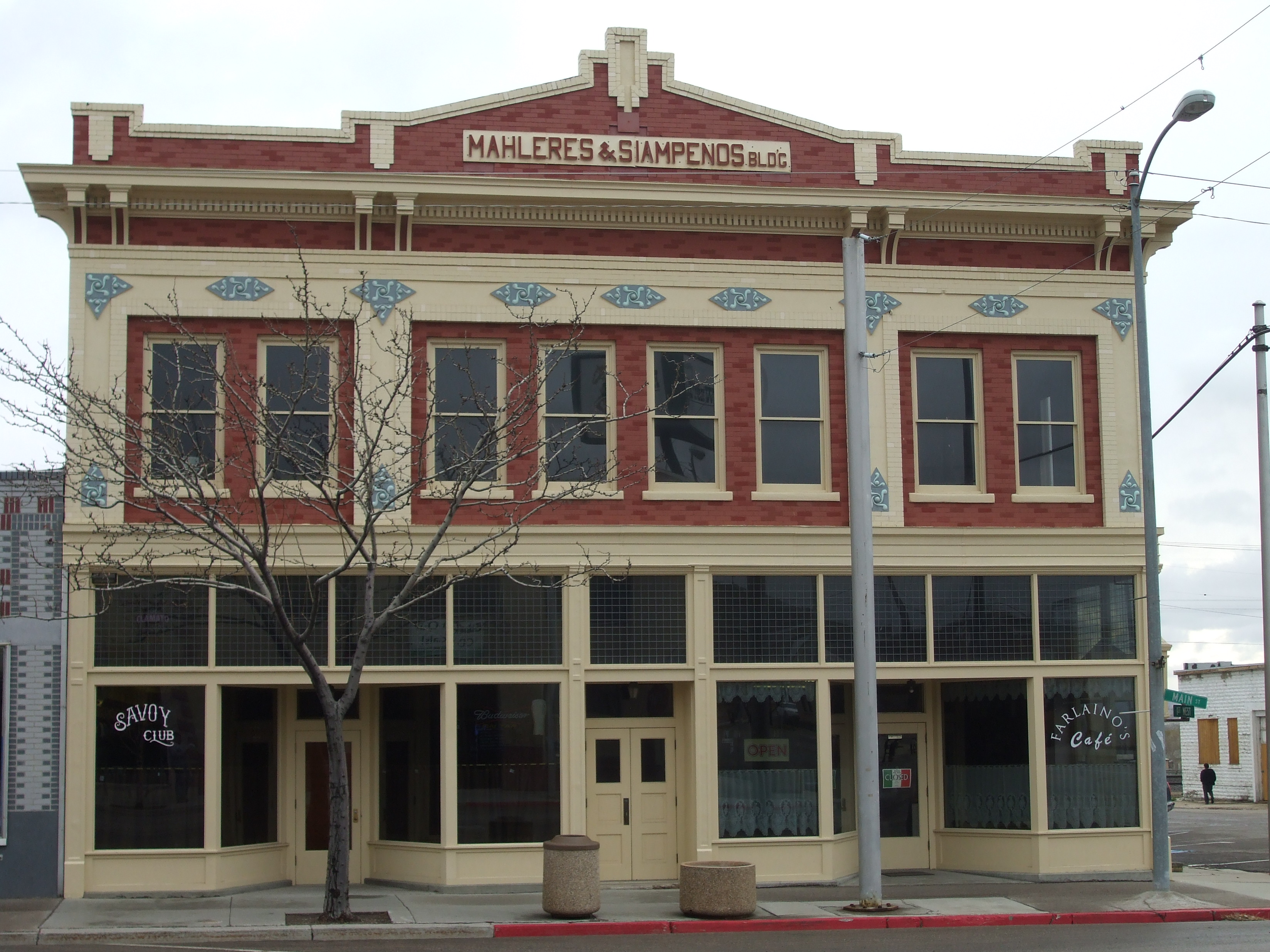 The Parker and Weeter Block, a historic building in Price, Utah, United States.